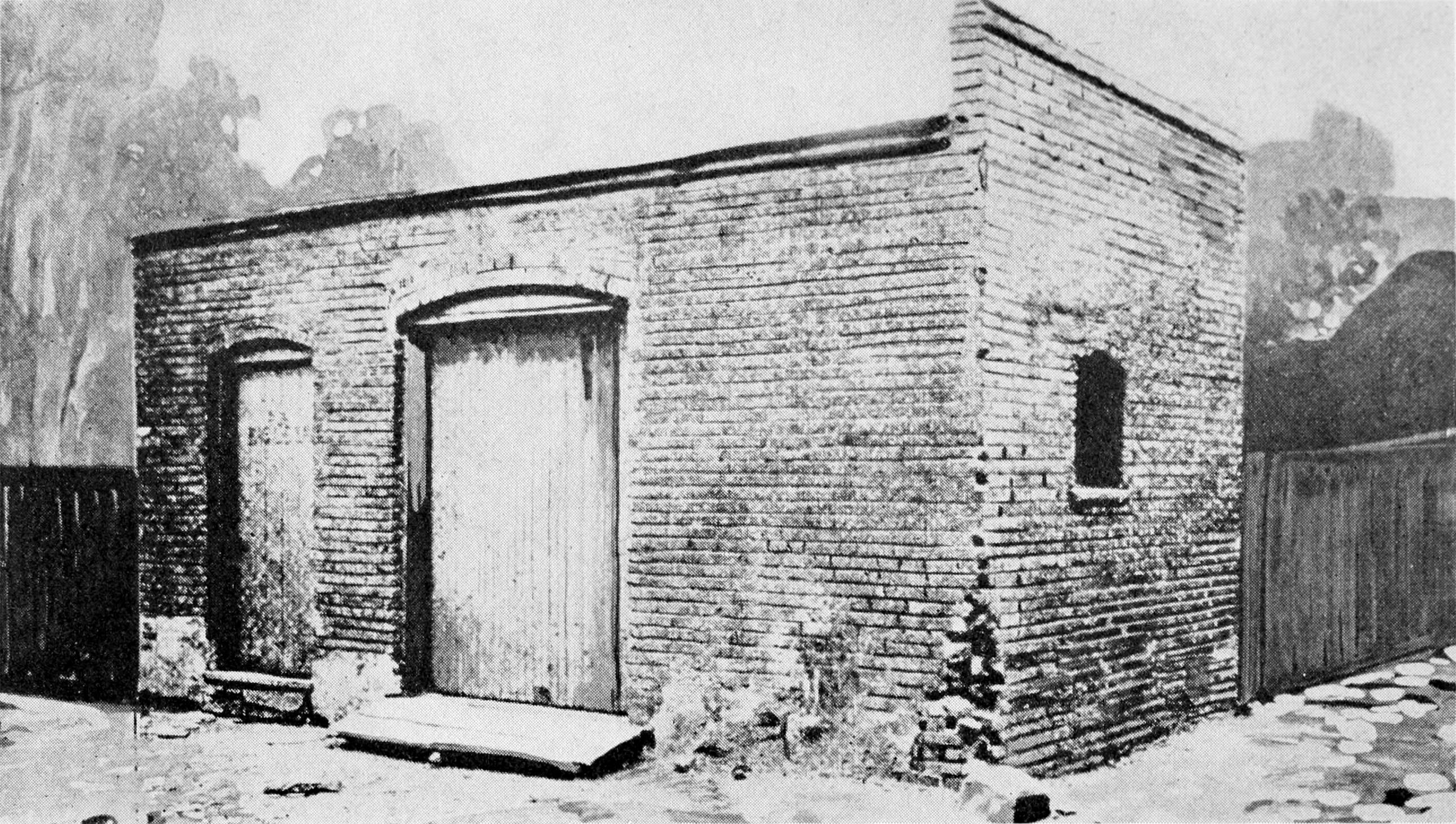 The first "Ford factory" — from The Truth about Henry Ford by Sarah T. Bushnell. This is a brick barn on Bagley Street, Detroit, where Henry Ford worked on his first gas car. From The Freeman January 1998: Anyone strolling by 58 Bagley Street in Detroit early in the morning of June 4, 1896, would have seen a strange sight: Henry Ford, ax in hand, was smashing open the brick wall of his rented garage. He had just started his first gas-powered car, and it was too big to fit through the door.